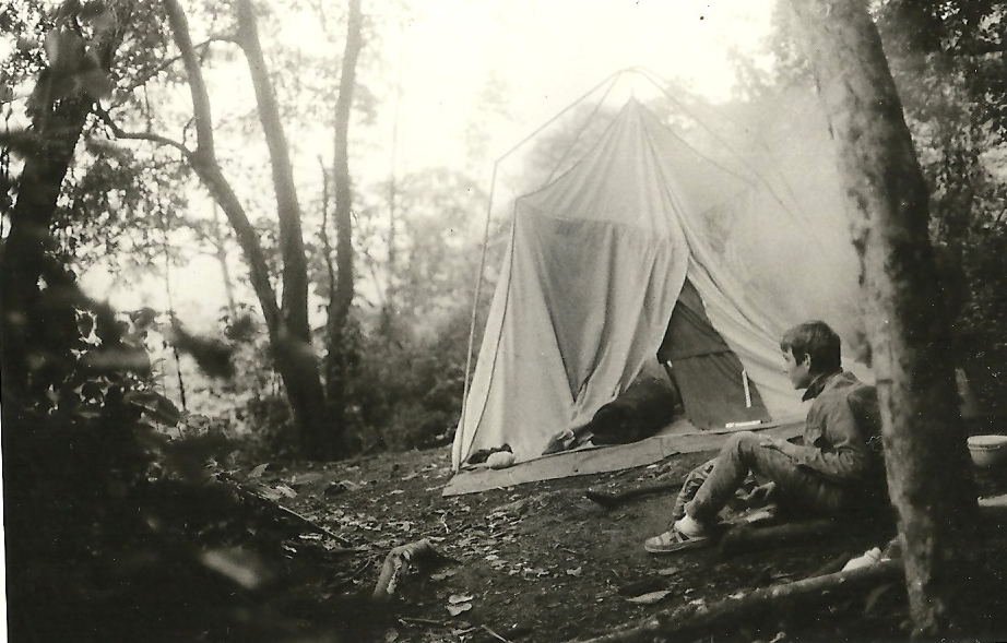 Boy camping at one of the skirts of Henri Pittier National Park, northern Venezuela.